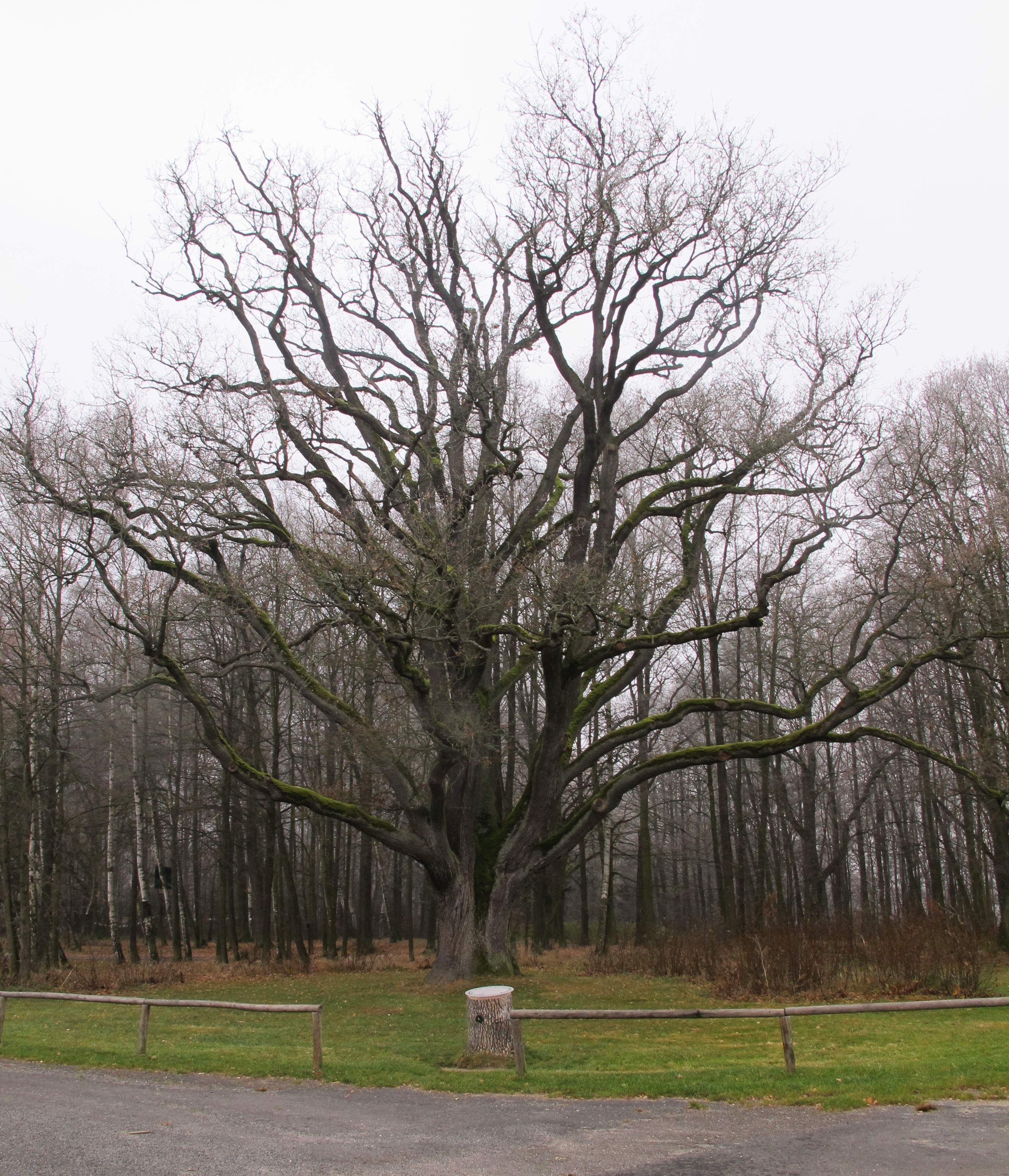 Famous tree - Quercus robur in camp in Sedmihorky, Semily District - Czech Republic